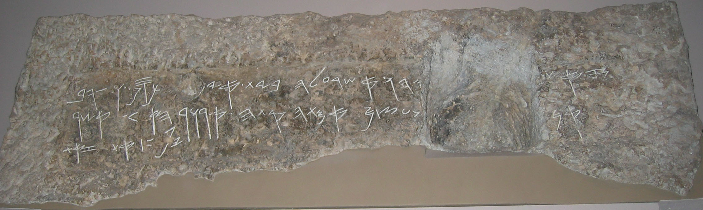 An inscription from Silwan (Siloam), from the lintel of a royal steward's tomb. The name is largely obliterated (only the last two letters, "hw", survive), but is believed to be Shebna-yahu. See also [1]. - British Museum WA 125205